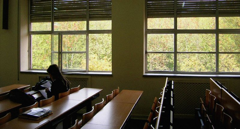 A classroom at the Faculty of Philology of the Complutense University of Madrid (Community of Madrid, Spain).